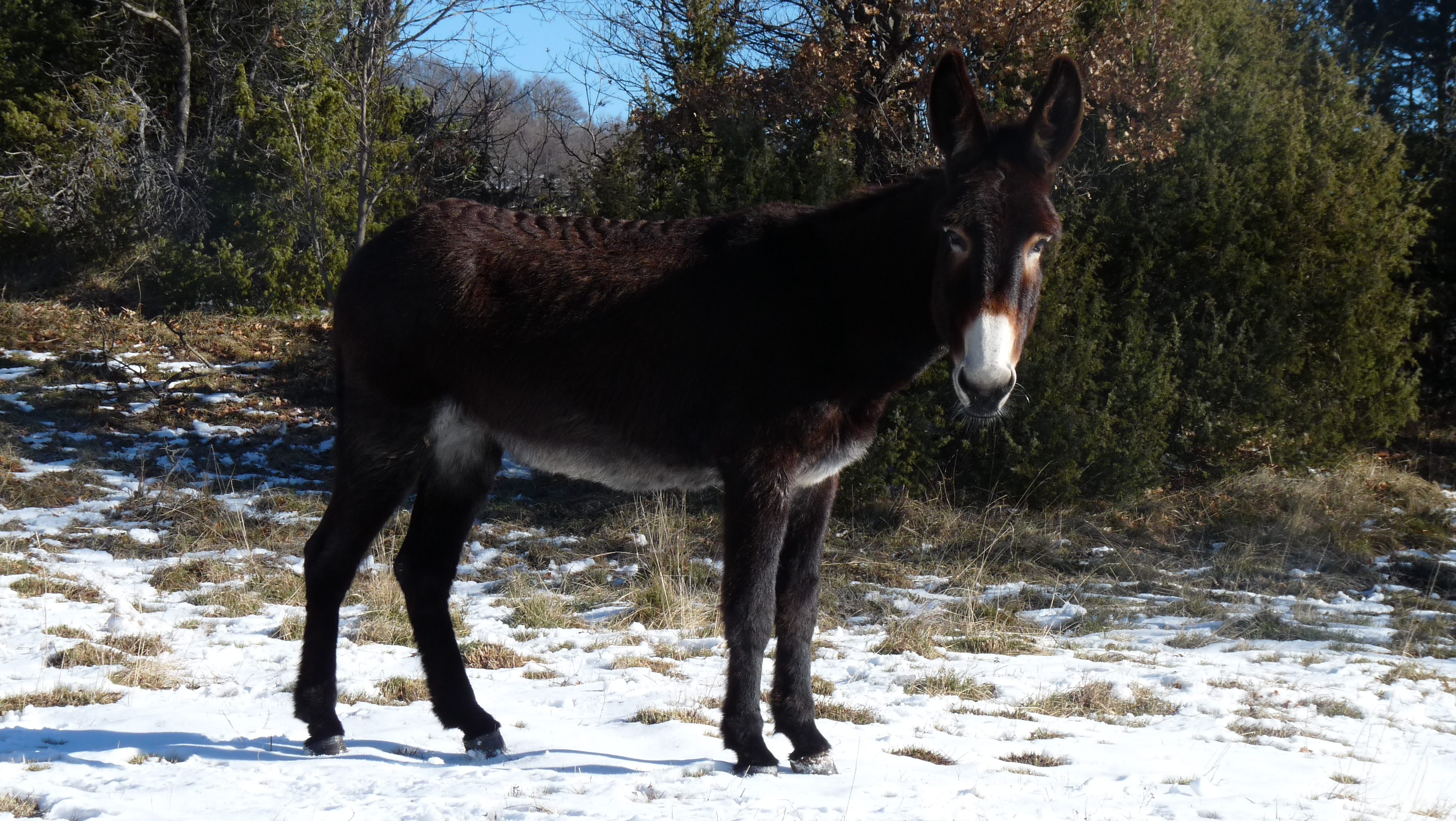 Catalan donkey